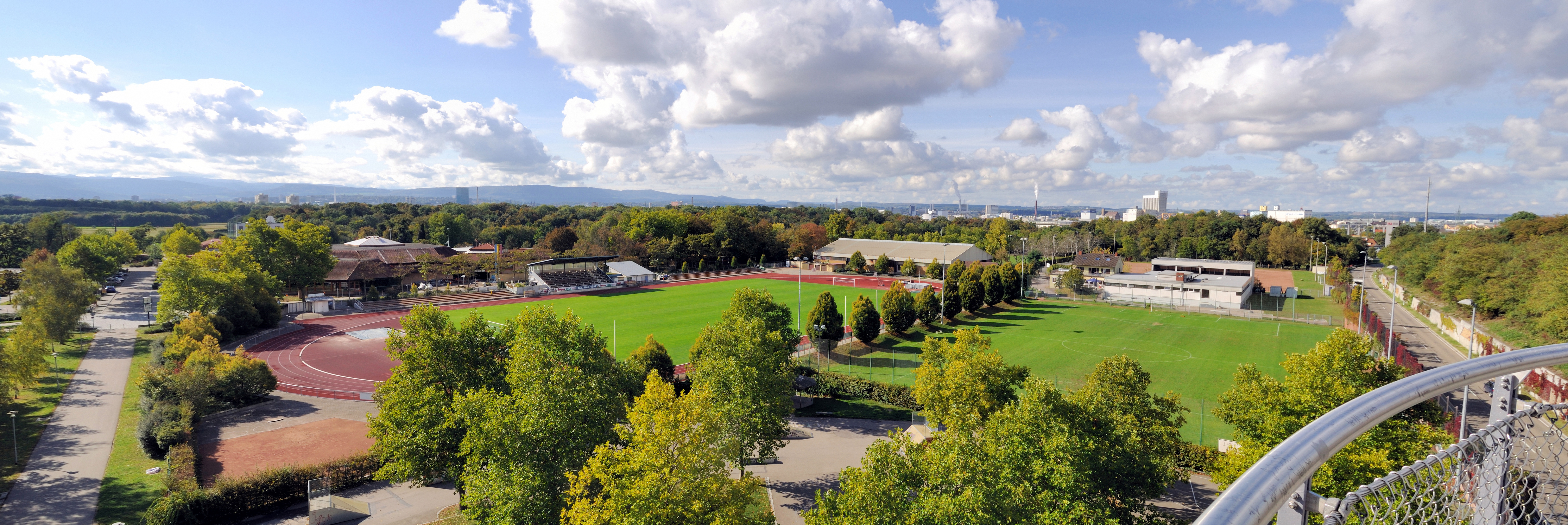 Weil am Rhein: Schlaich tower